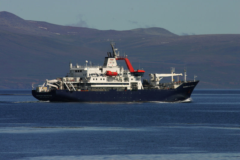 RV Marion Dufresne in the Morbihan Gulf (Kerguelen Archipelago)